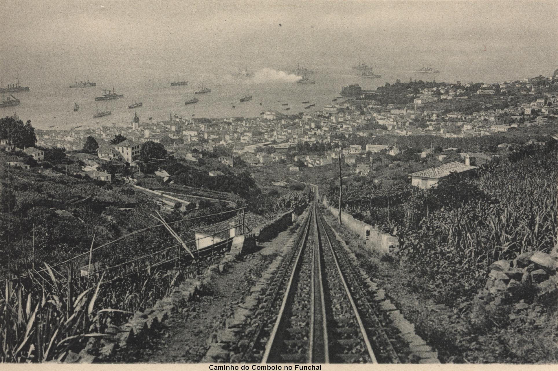 Caminho de Ferro do Monte - Old tramway in Funchal, Madeira